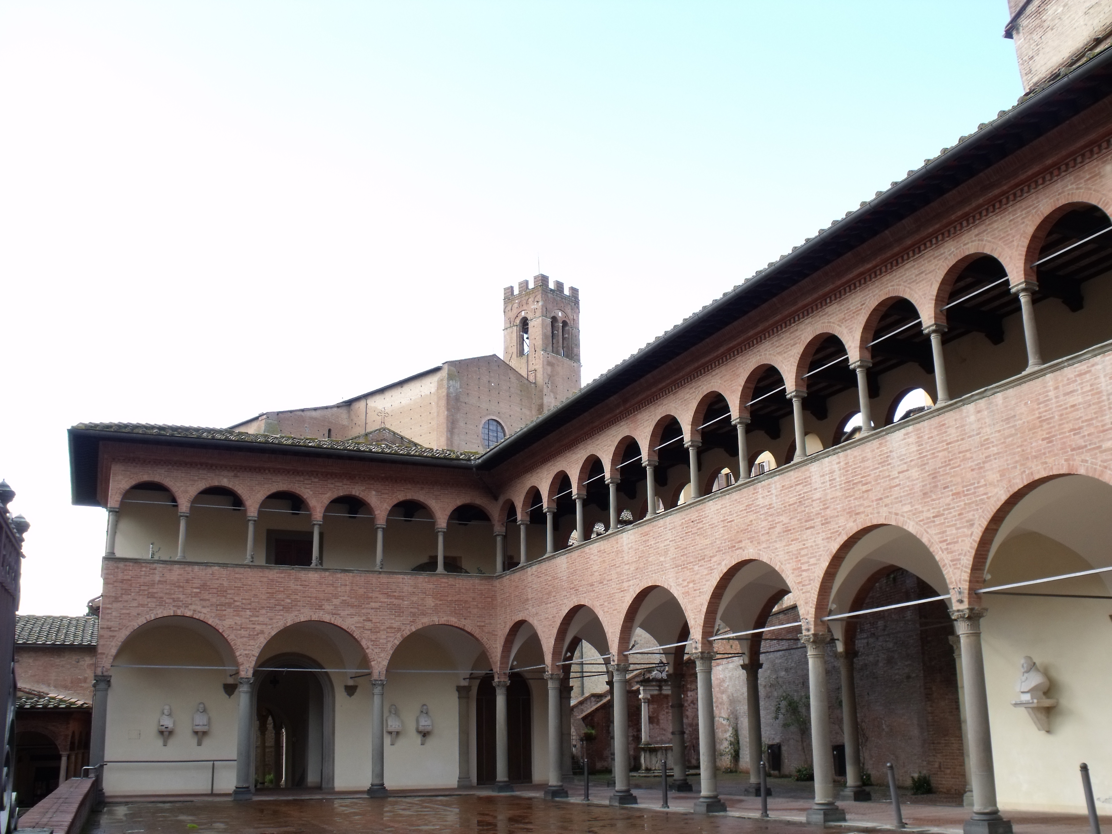 Santuario di Santa Caterina - House of Saint Catherine of Siena - in Siena, Tuscany, Italy. Background with the Basilica di San Domenico